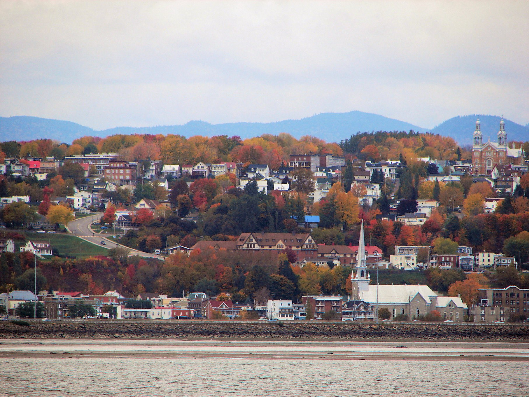 Beauport (part of Quebec City) as seen from Île d'Orléans, Quebec, Canada